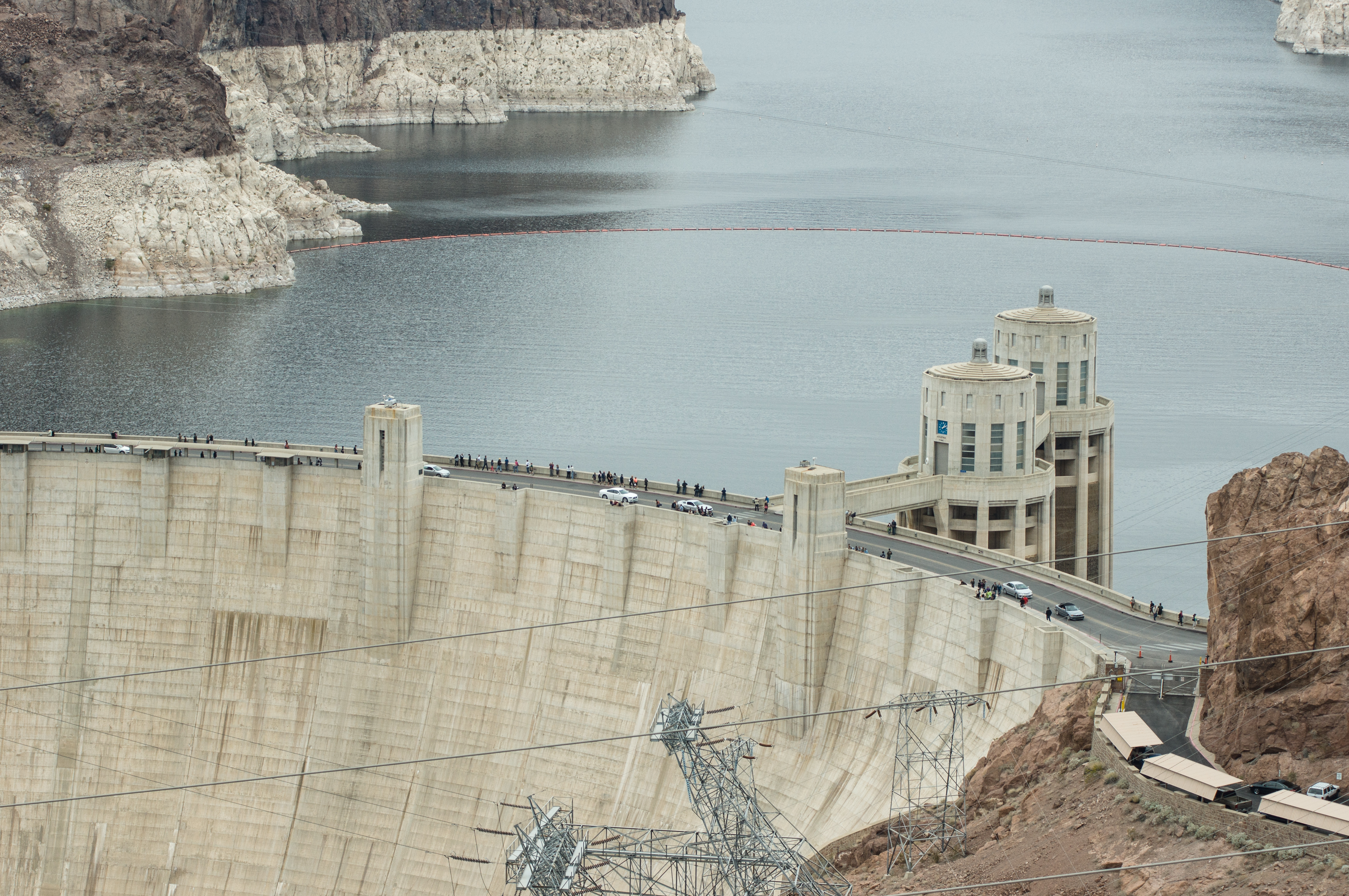 Hoover Dam seen from Hoover Dam Bypass.